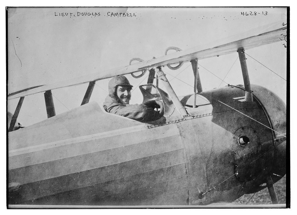 Bain News Service,, publisher. Lieut. Douglas Campbell [between ca. 1915 and ca. 1920] 1 negative : glass ; 5 x 7 in. or smaller. Notes: Title from data provided by the Bain News Service on the negative. Forms part of: George Grantham Bain Collection (Library of Congress). Format: Glass negatives. Repository: Library of Congress, Prints and Photographs Division, Washington, D.C. 20540 USA, General information about the Bain Collection is available at Higher resolution image is available (Persistent URL): Call Number: LC-B2- 4628-13